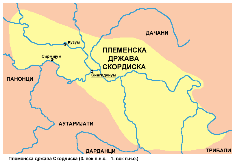 Tribal State of the Scordisci (3rd century BC - 1st century BC), with capital in Singidunum (present-day Belgrade).